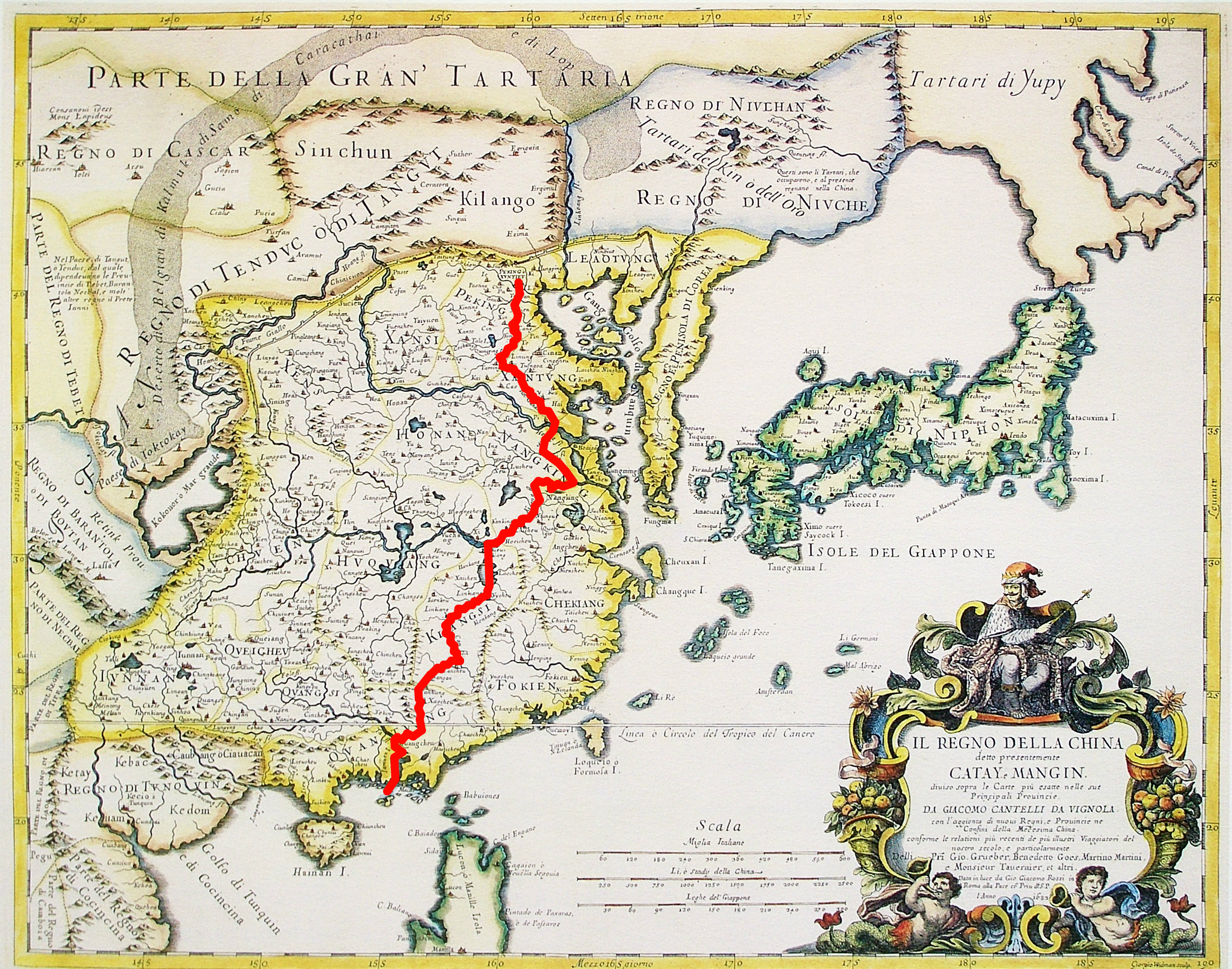 Matteo Ricci's way from Macao to Beijing in 16th century. The same route was later followed (or partially followed) by Portuguese artillerists like Gonçalo Teixeira Correa demonstrating their skill and technology to the imperial court in the 1620s and 1630s.